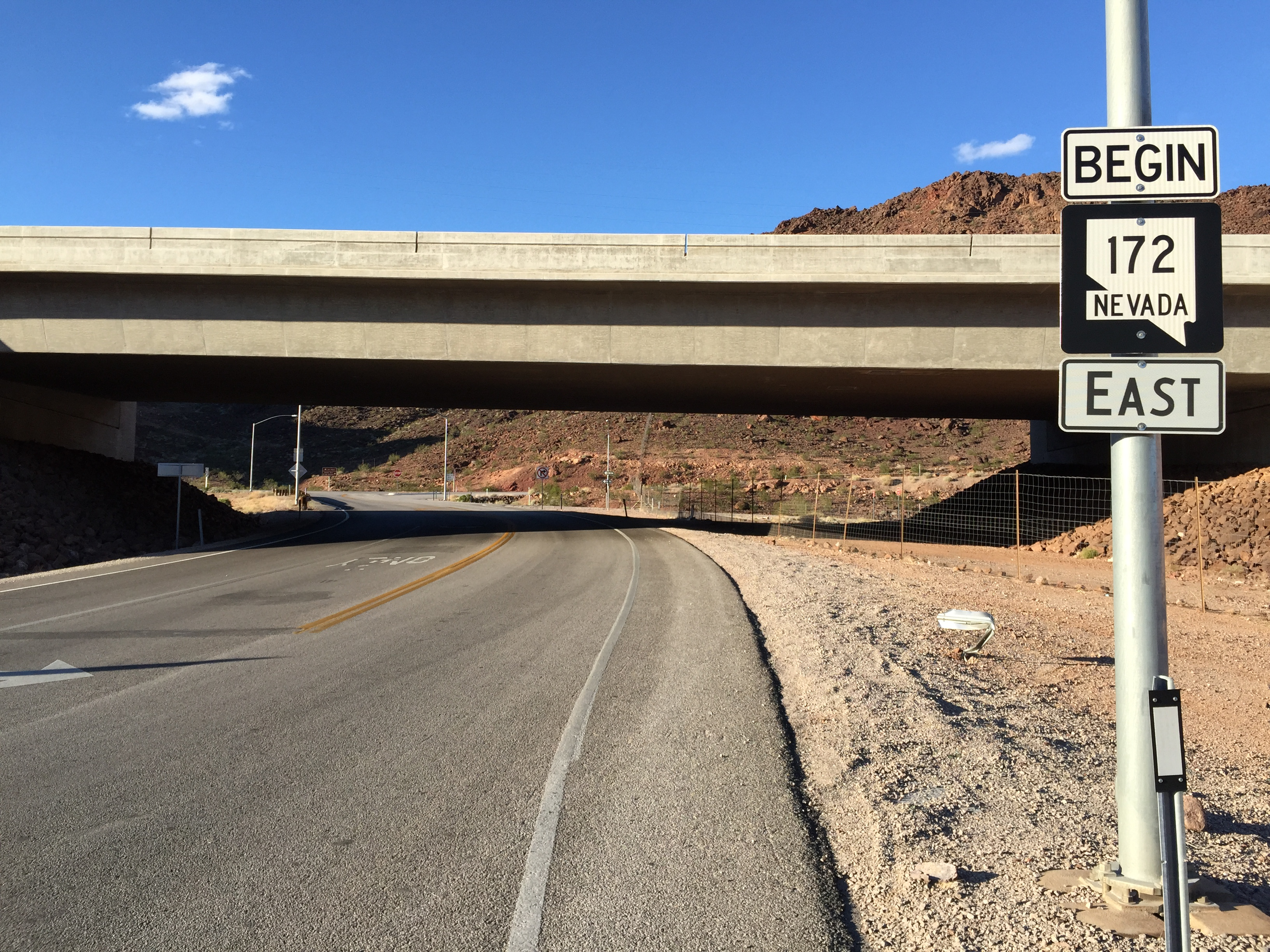 View east from the west end of Nevada State Route 172 (Hoover Dam Access Road) at U.S. Route 93 (Hoover Dam Bypass) in Clark County, Nevada